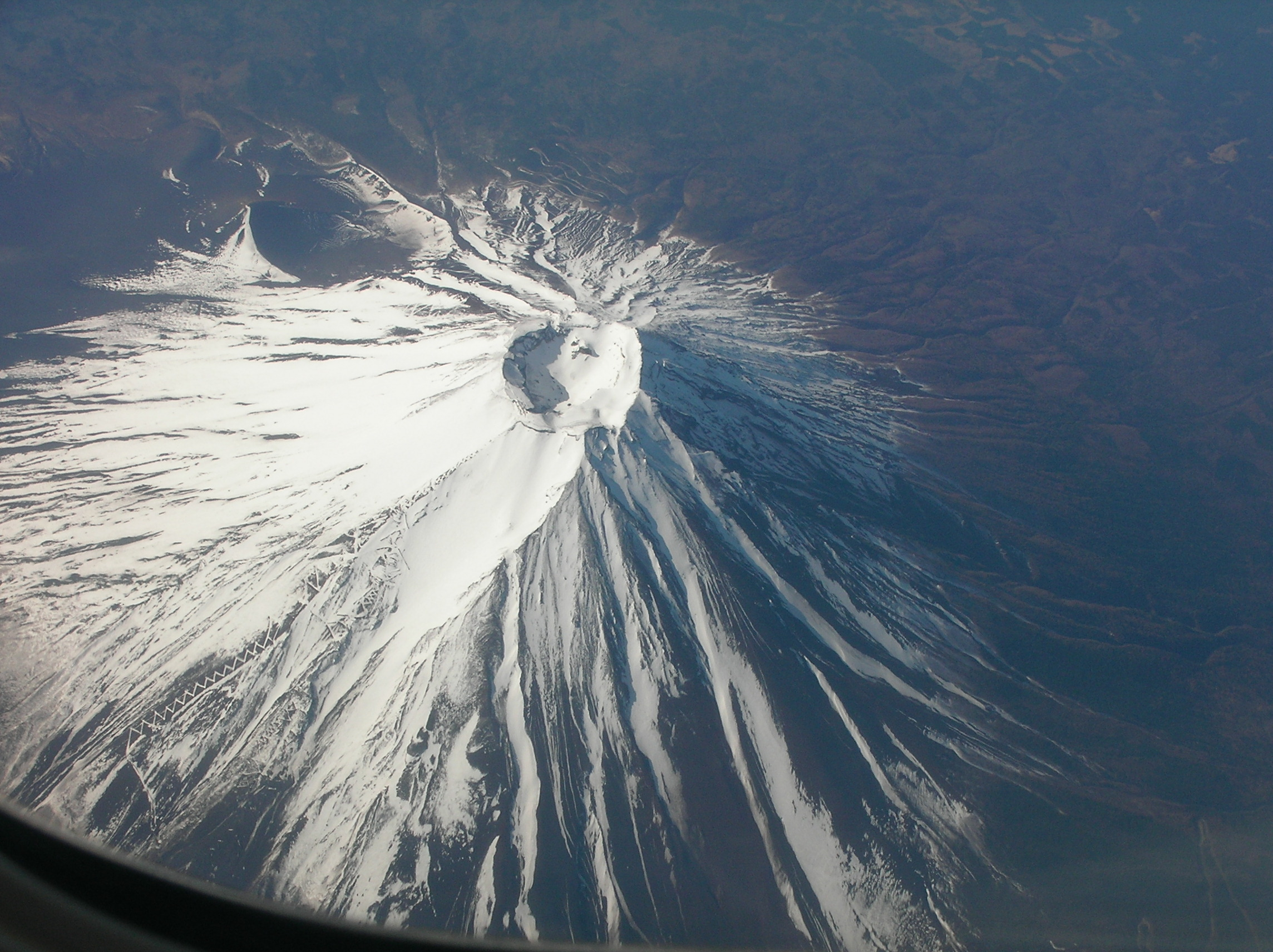 The peak of Mount Fuji as seen from the North.